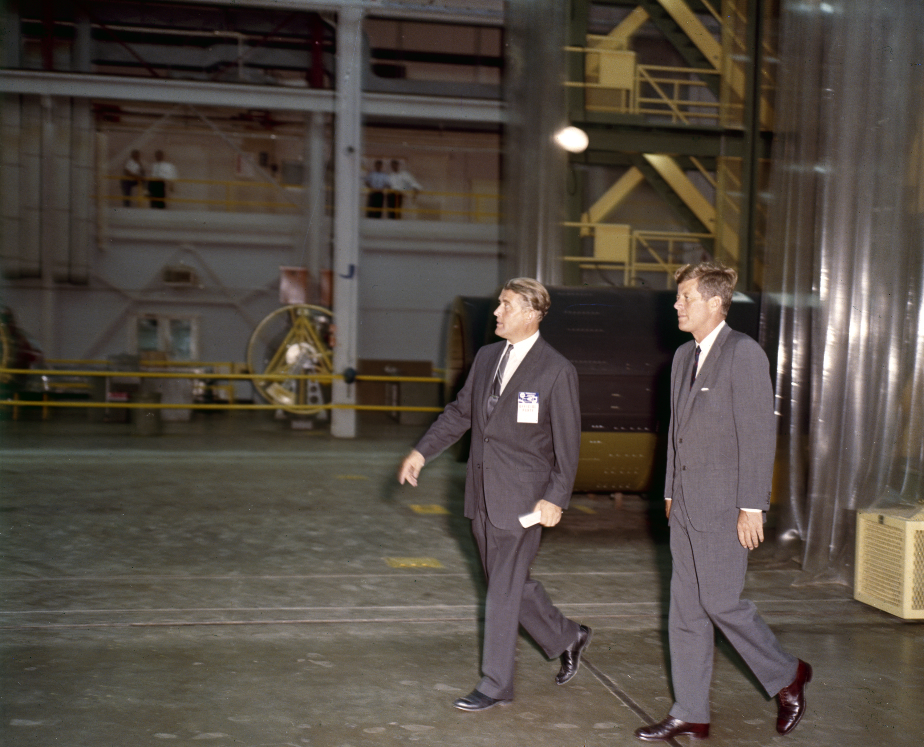 President Kennedy Tours Marshall with von Braun